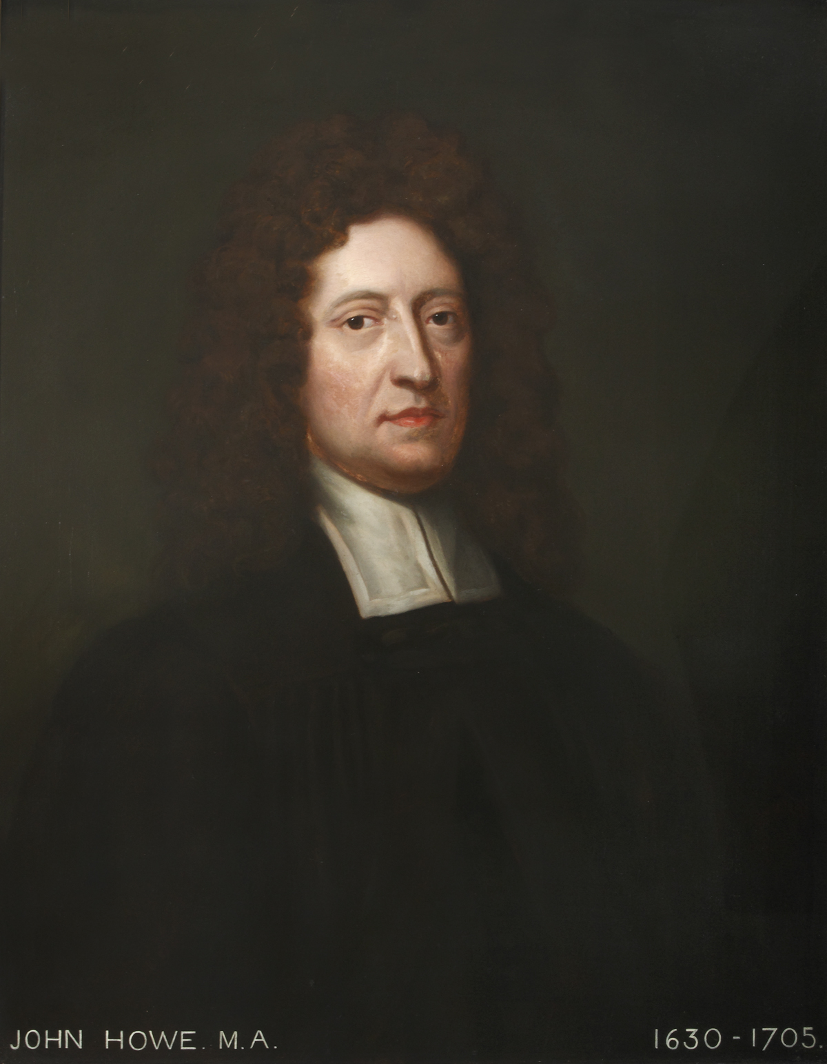 Collection: Mansfield College, University of Oxford